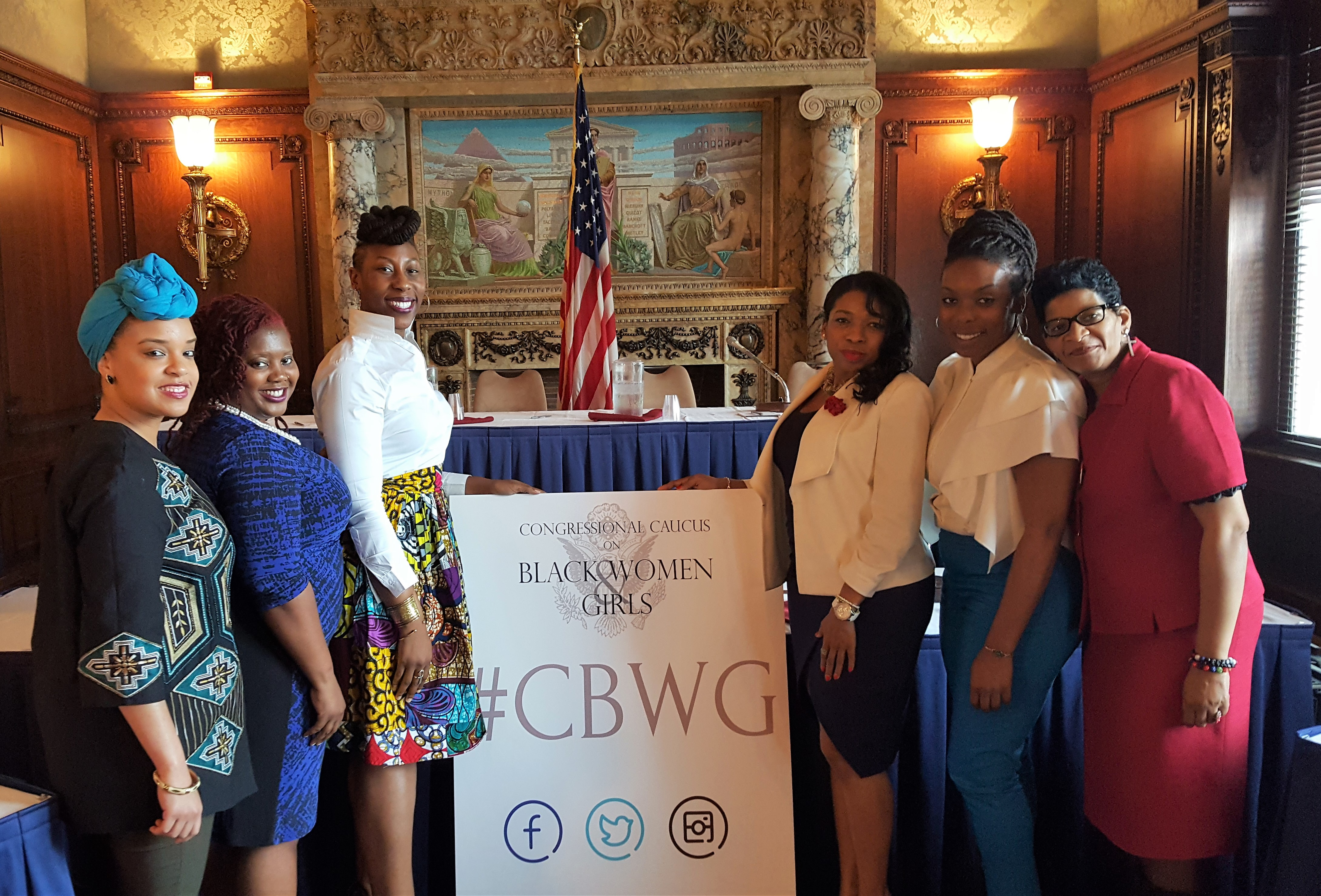 The official launch of the Congressional Caucus on Black Women and Girls, #SheWoke Committee.